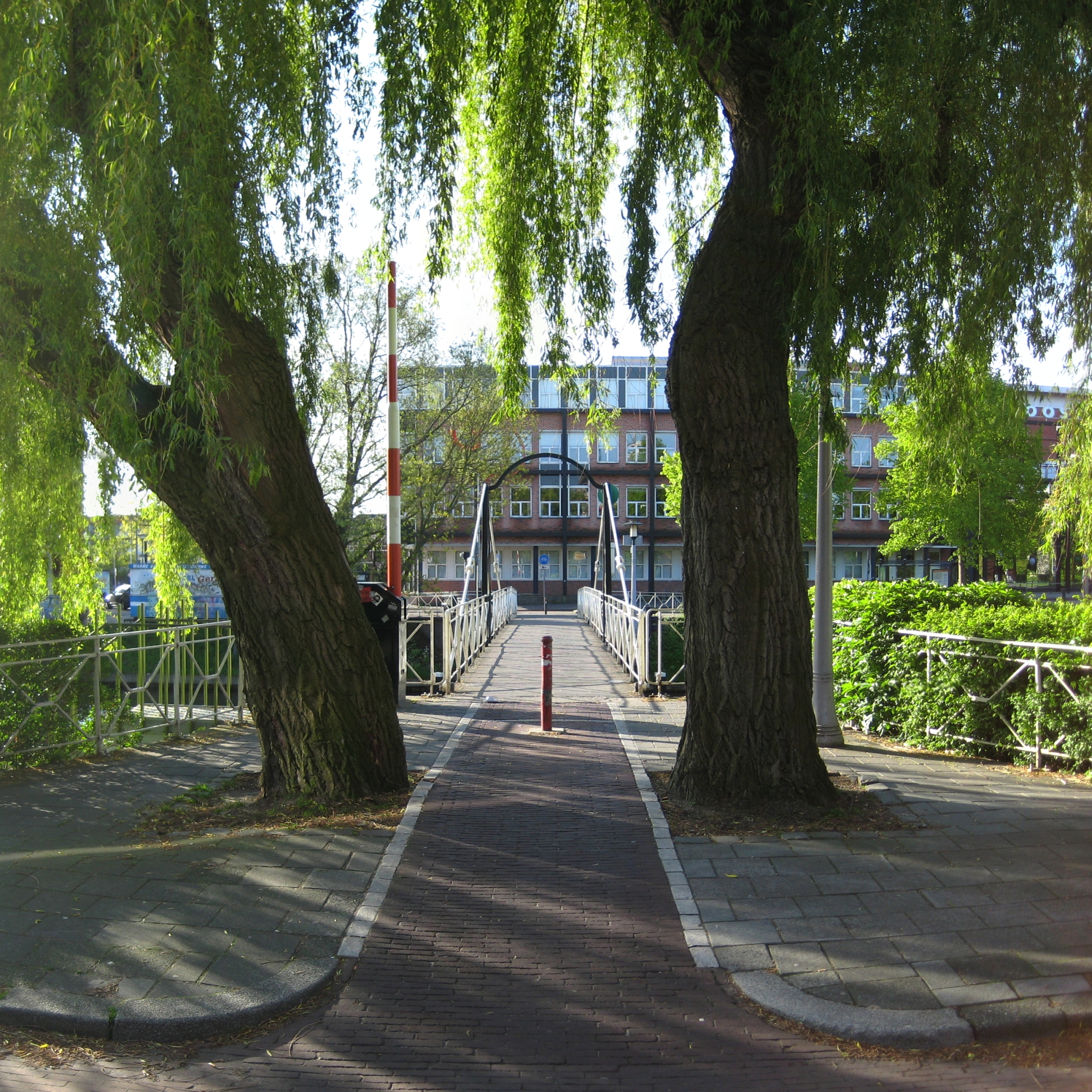 De Trompbrug (1879), a bridge in the Dutch city of Groningen.